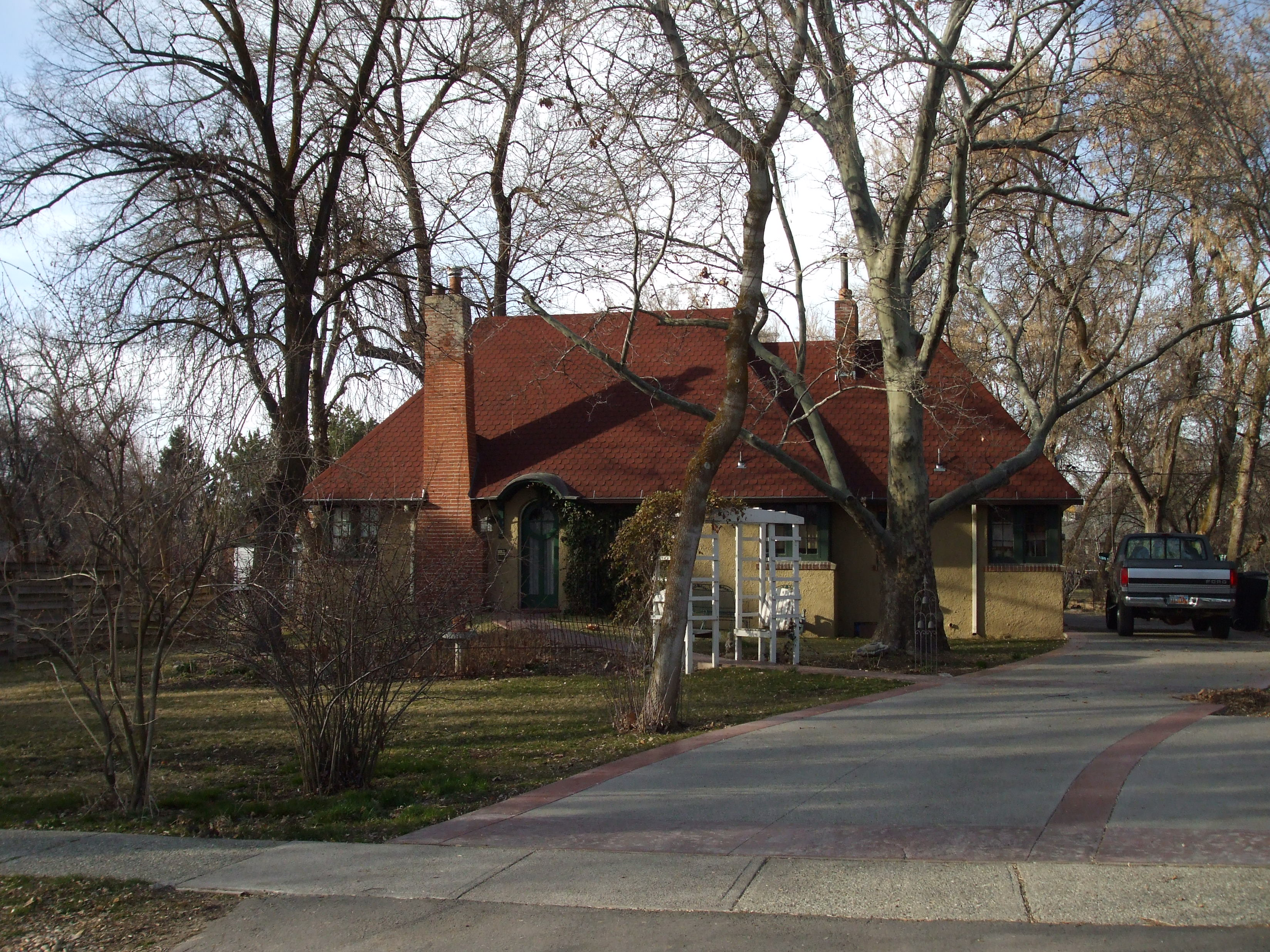 The LeConte Stewart House, a historic home in Kaysville, Utah, United States.